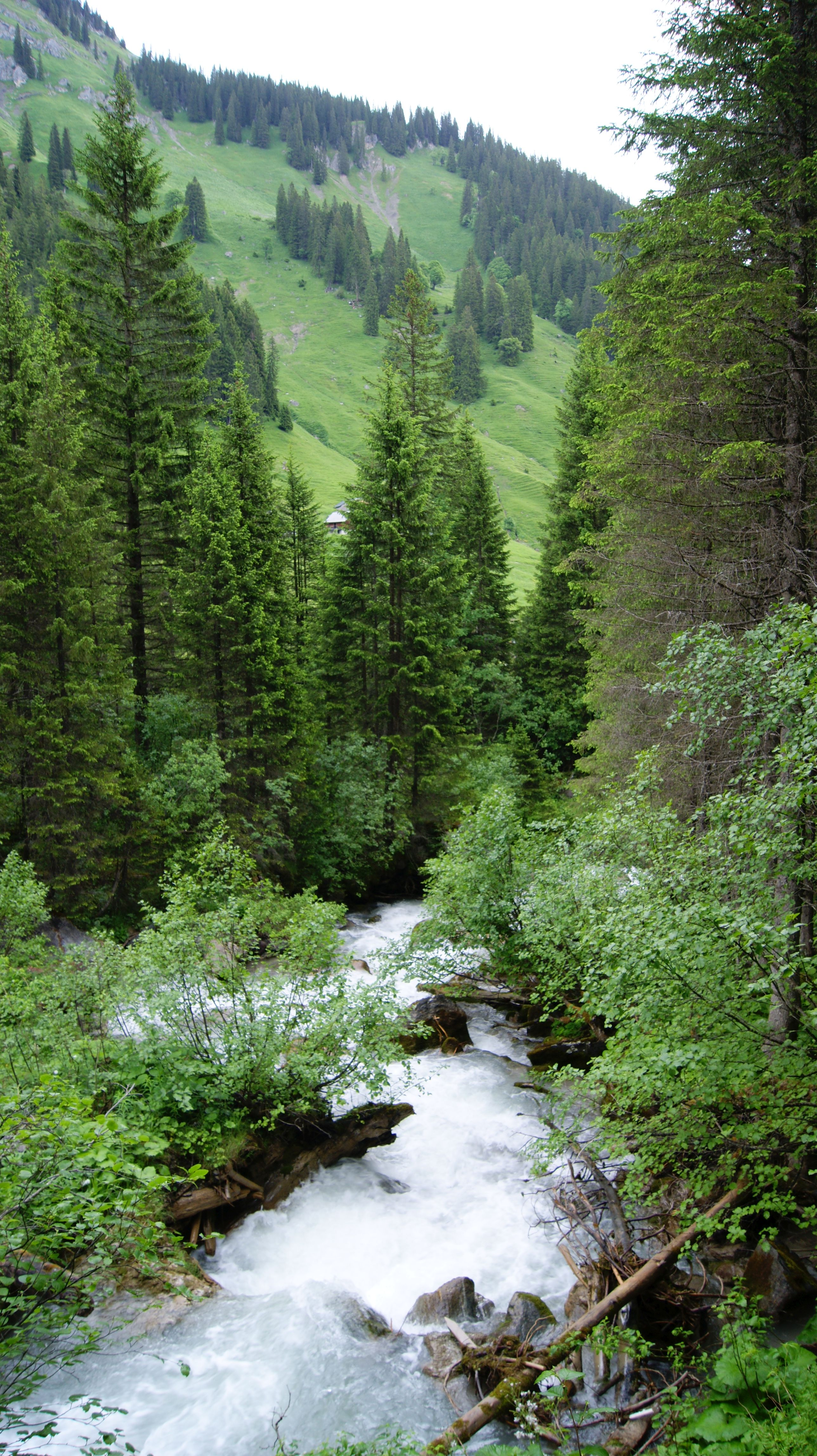 Stream "Rellsbach" in the valley "Rellstal" in the village of Vandans in Vorarlberg, Austria - just before Alpe "Ruggel".